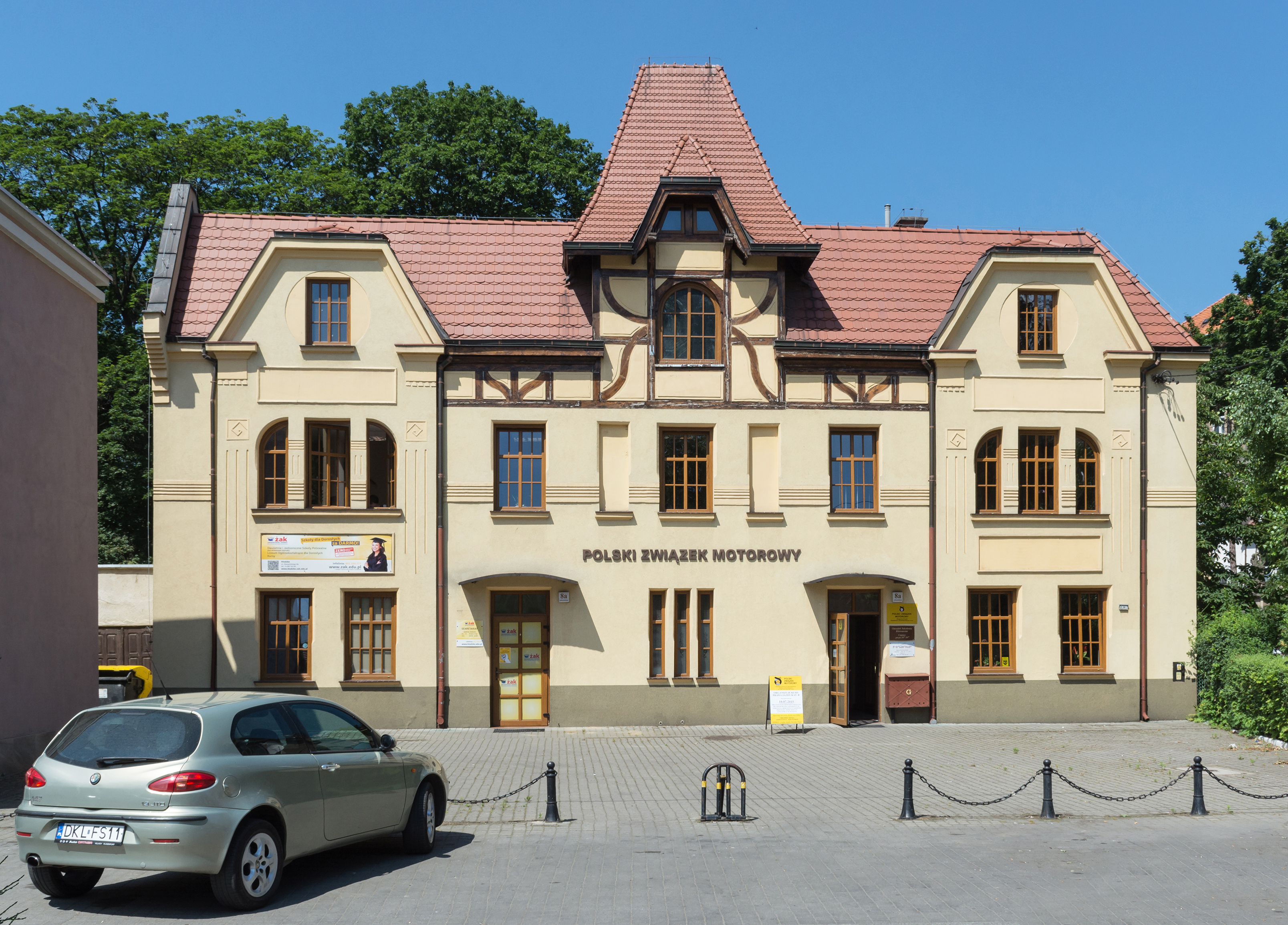 8a Daszyńskiego Street in Kłodzko, the seat of Polish Motor Association